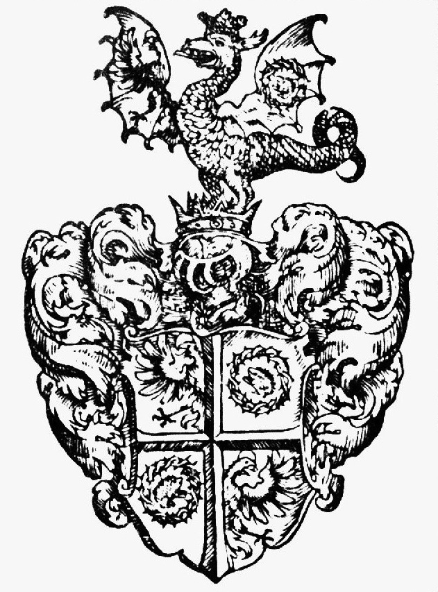 Coat of arms of the Ygl family; detail of Warmund Ygl's map of Tyrol (1605)